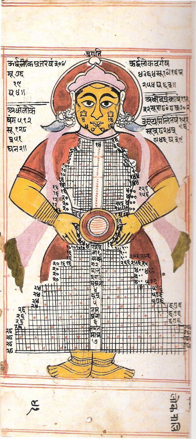 Shape of Universe as per Jain cosmology in form of a cosmic man. Picture taken from 15-17th CE art from Jain temple in Gujarat.